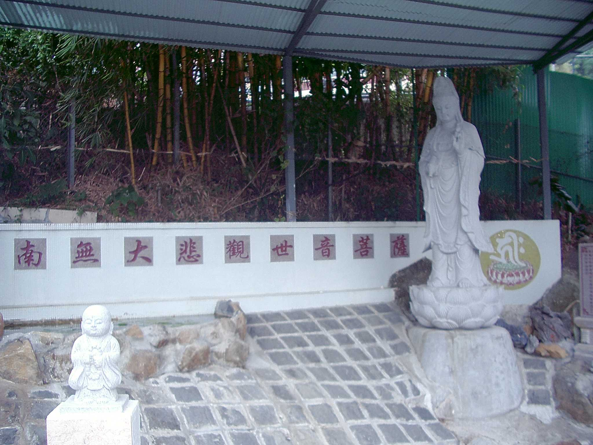 Guan Yin Statue, Nam Tin Chuk Temple, Fu Yung Shan, Tsuen Wan Hong Kong